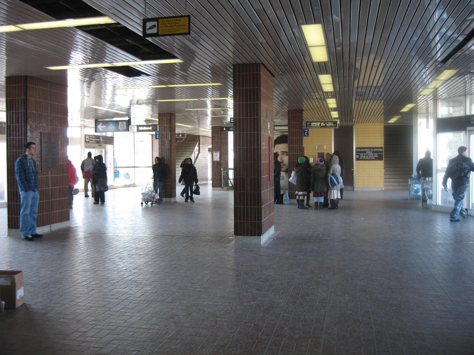 Kennedy Station Bus Platform